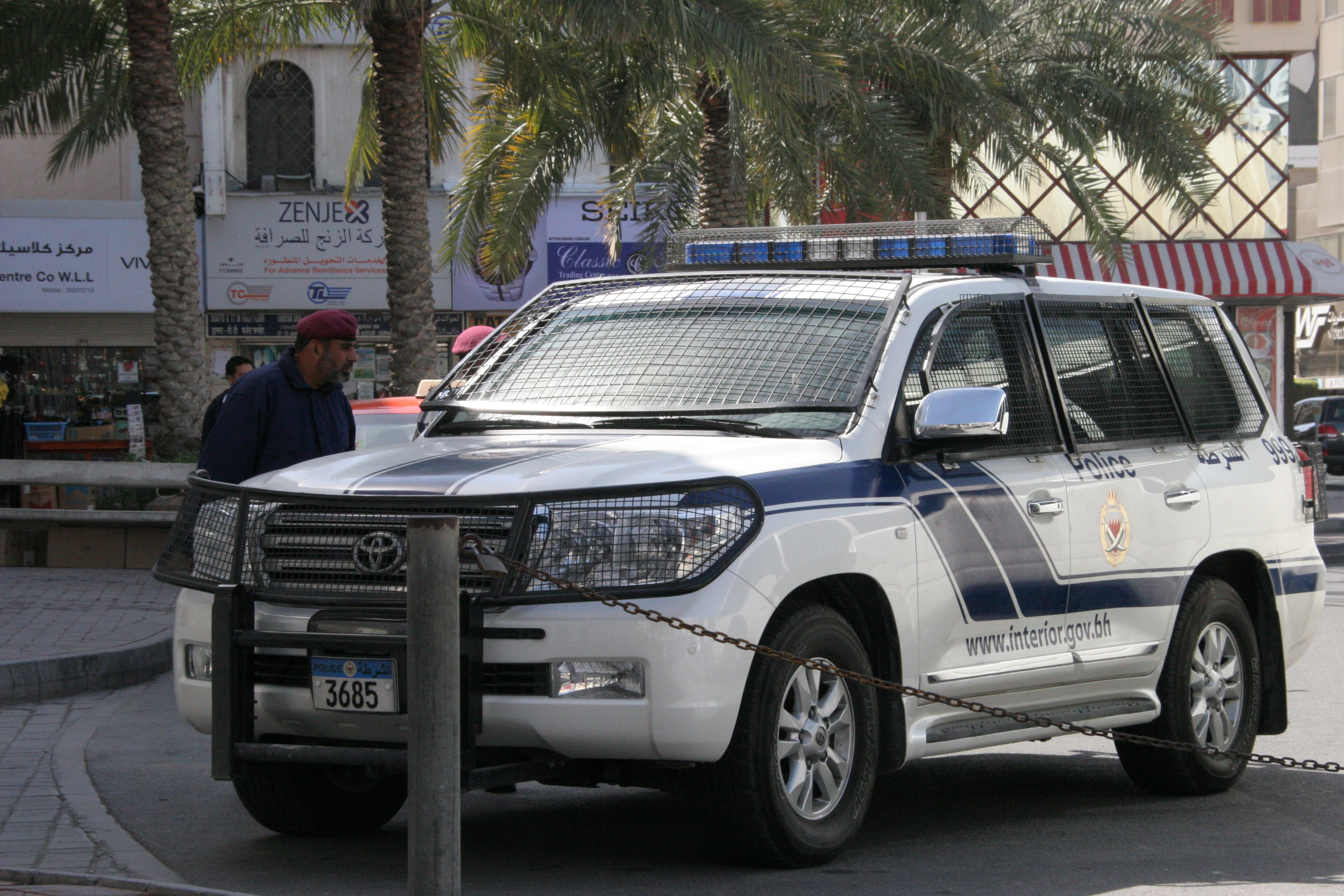 In Bahrain, witnesses say riot police have tried to disperse protesters with tear gas and rubber bullets. The clashes took place as officers attempted to stop people gathering for a major rally in the capital, Manama. It follows demonstrations on Sunday, with protesters calling for reform in the island kingdom. Bahrain has Sunni muslim rulers but the population is 70 per cent Shia, who claim they are regularly discriminated against. Photos via Al Jazeera's Sara Hassan.